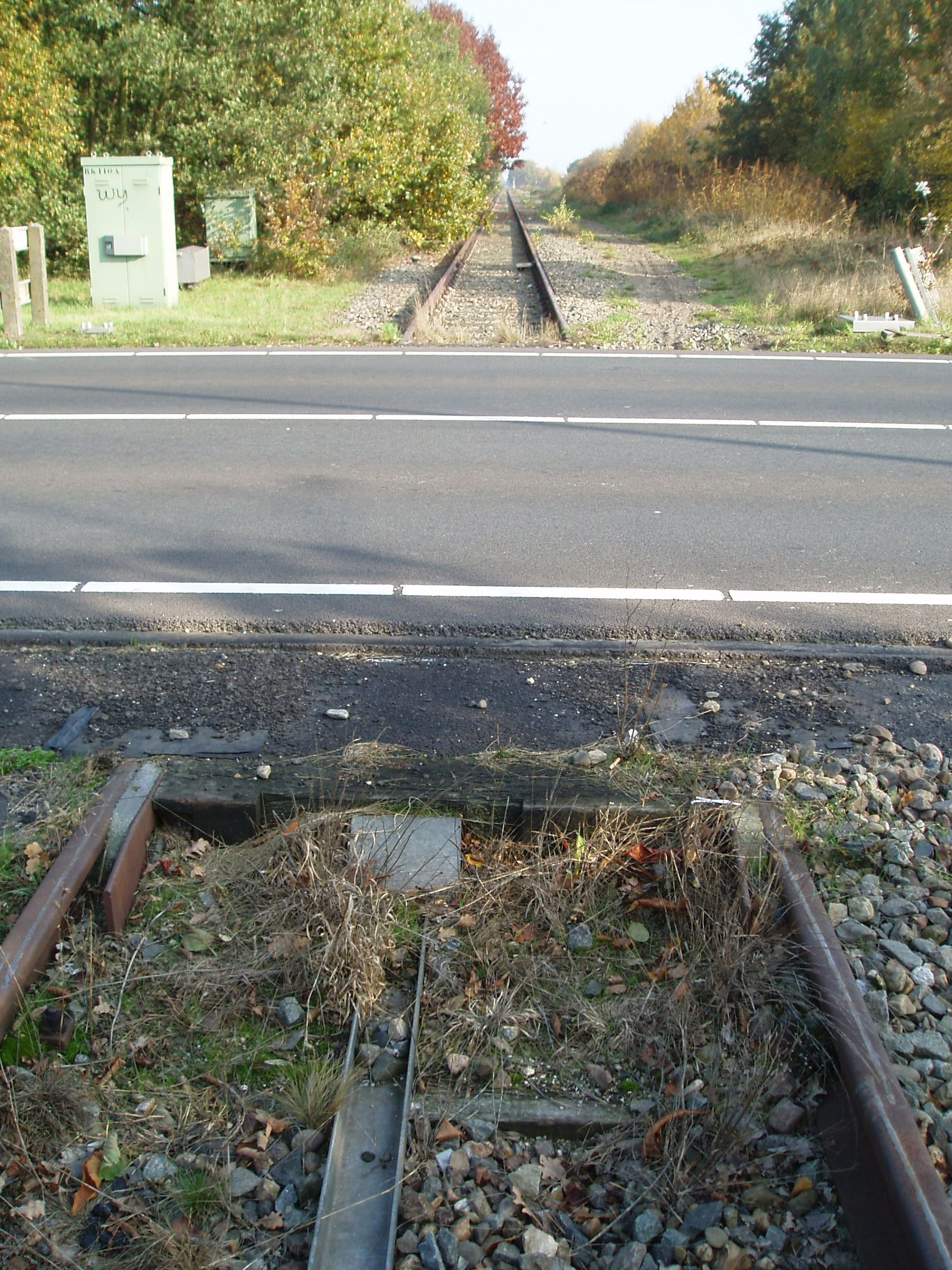 A level crossing in the railway line Boxtel-Wesel made unusable for trains after road resurfacing.